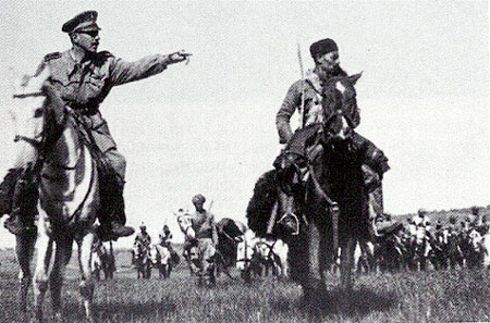 Italian Lieutenant Amedeo Guillet and Amhara cavalrymen in East Africa, 1940.